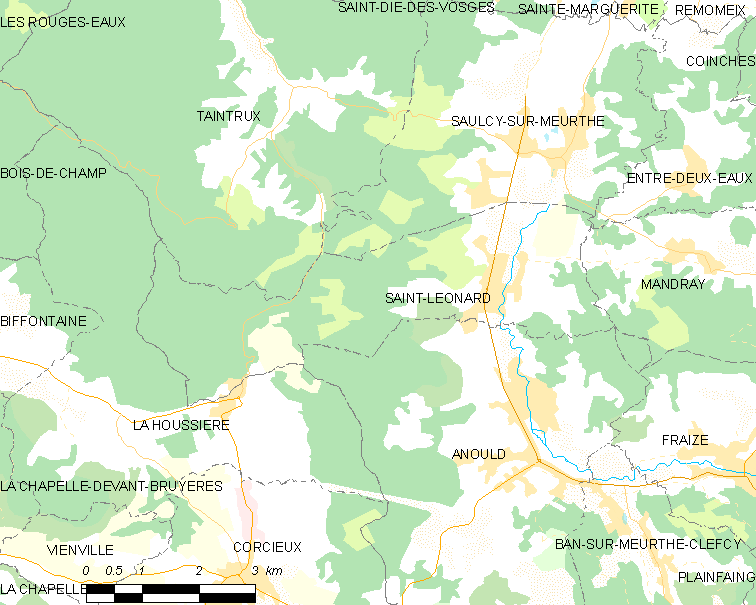 Map of French municipality Saint-Léonard